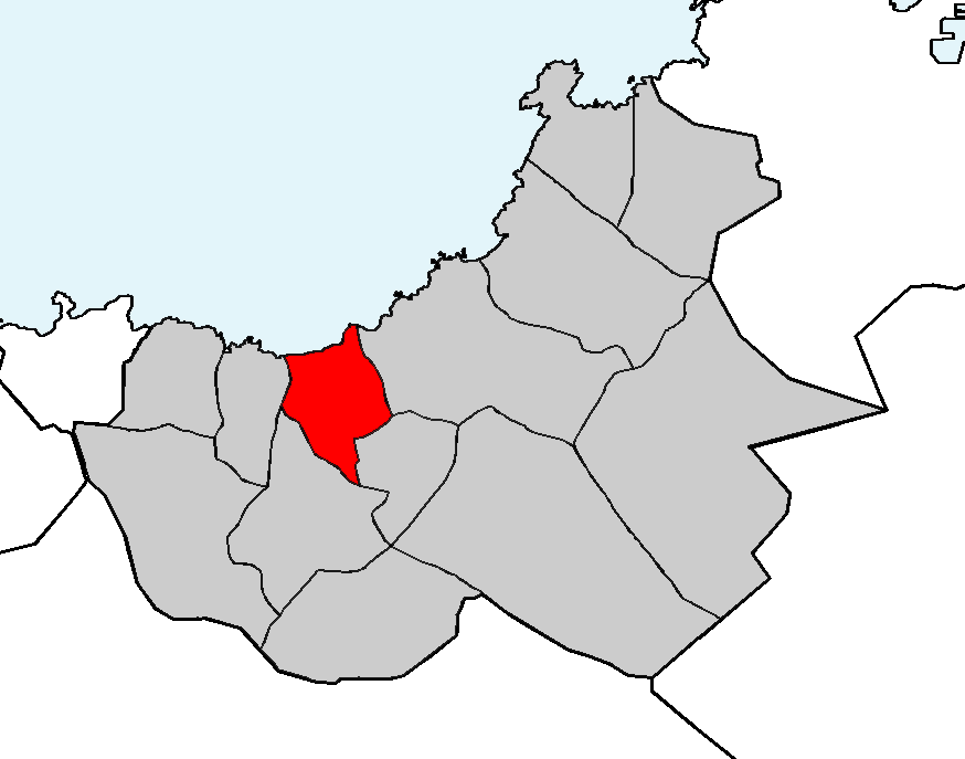 Location of the parish of Barrañán in the municipality of Arteixo (Galicia, Spain)